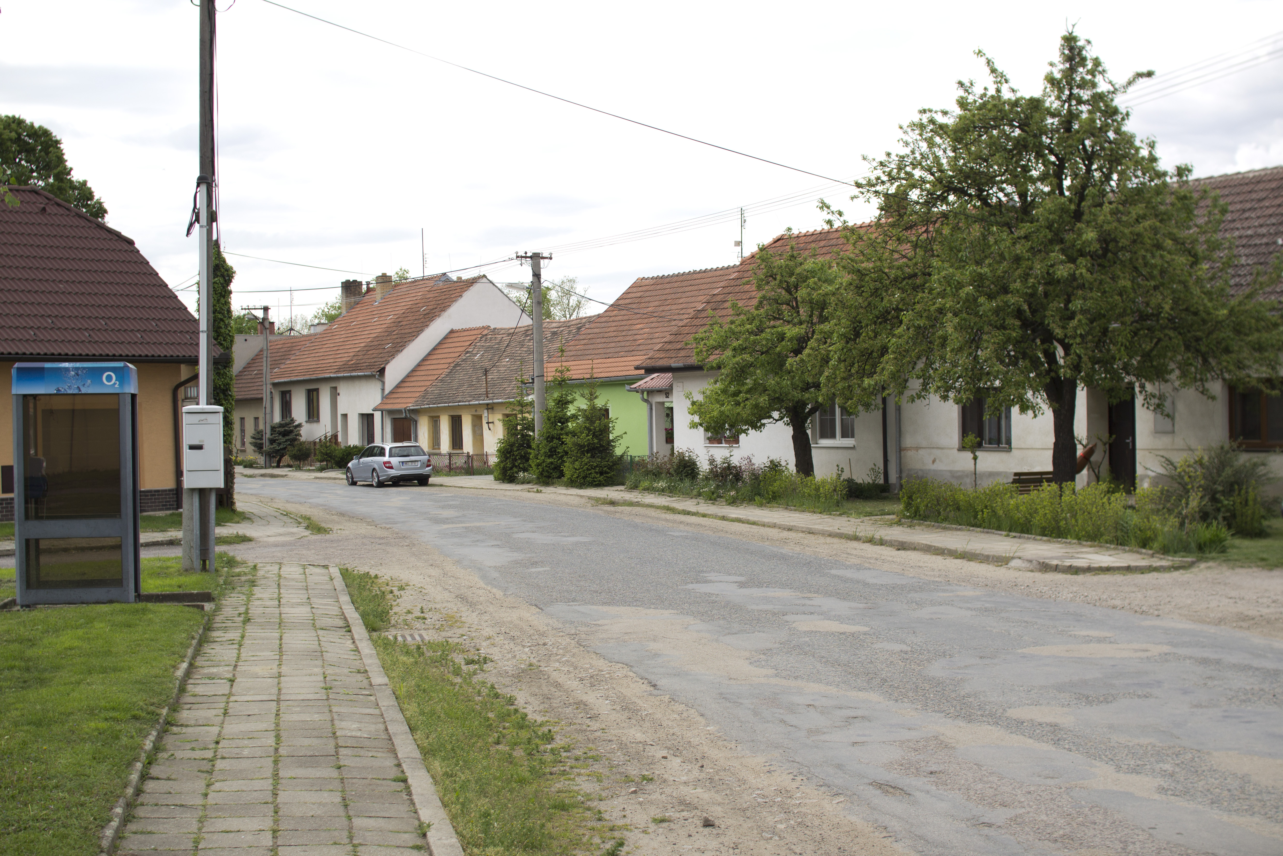 Lesonice, Znojmo District, South Moravian Region, Czech Republic